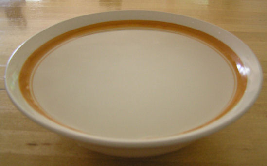 Chinese cuisine Hong Kong cuisine Gotfan Got fan Gefan Ge fan